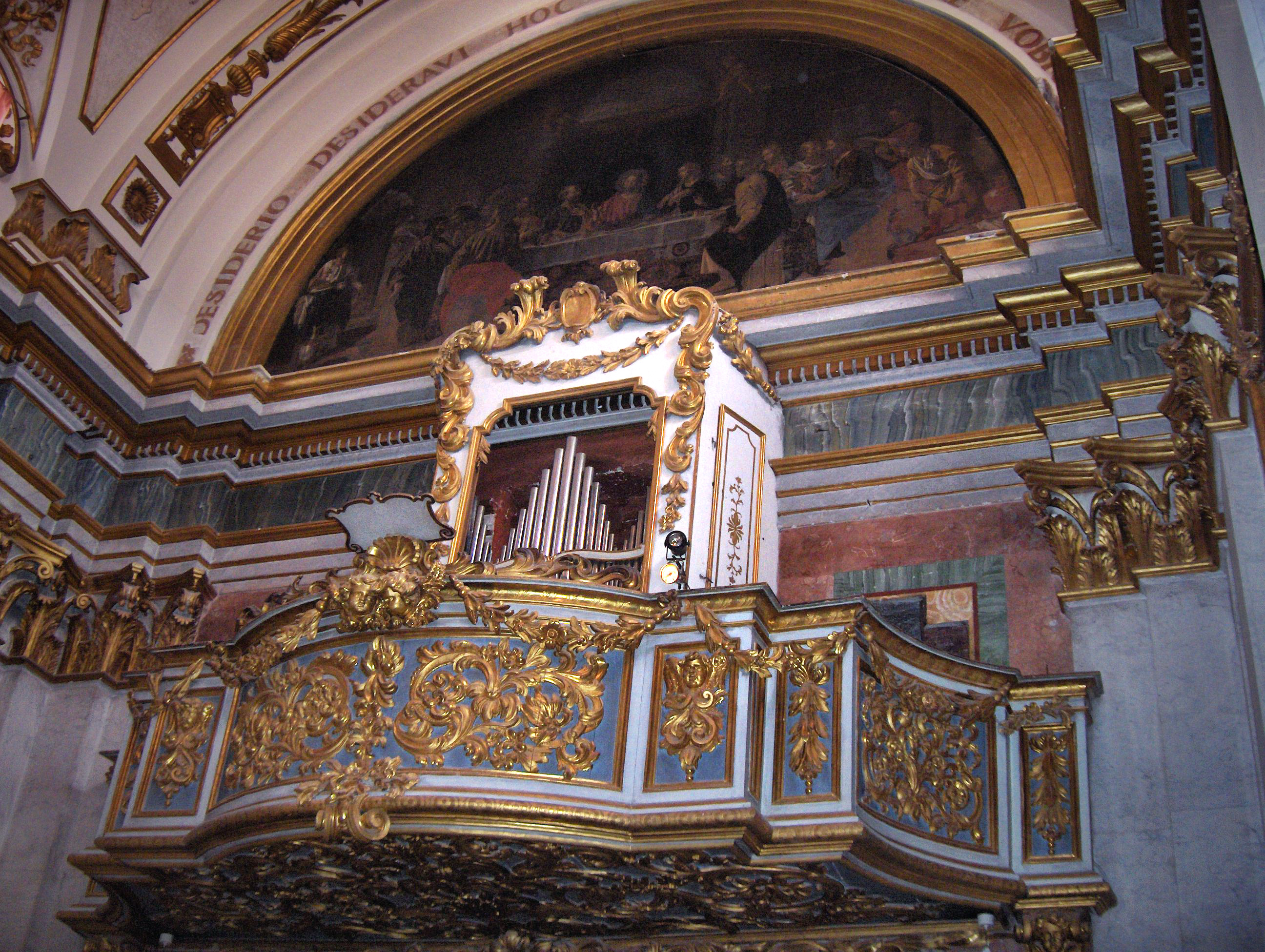 Organ; Cathedral of San Rufino, Assisi, Italy